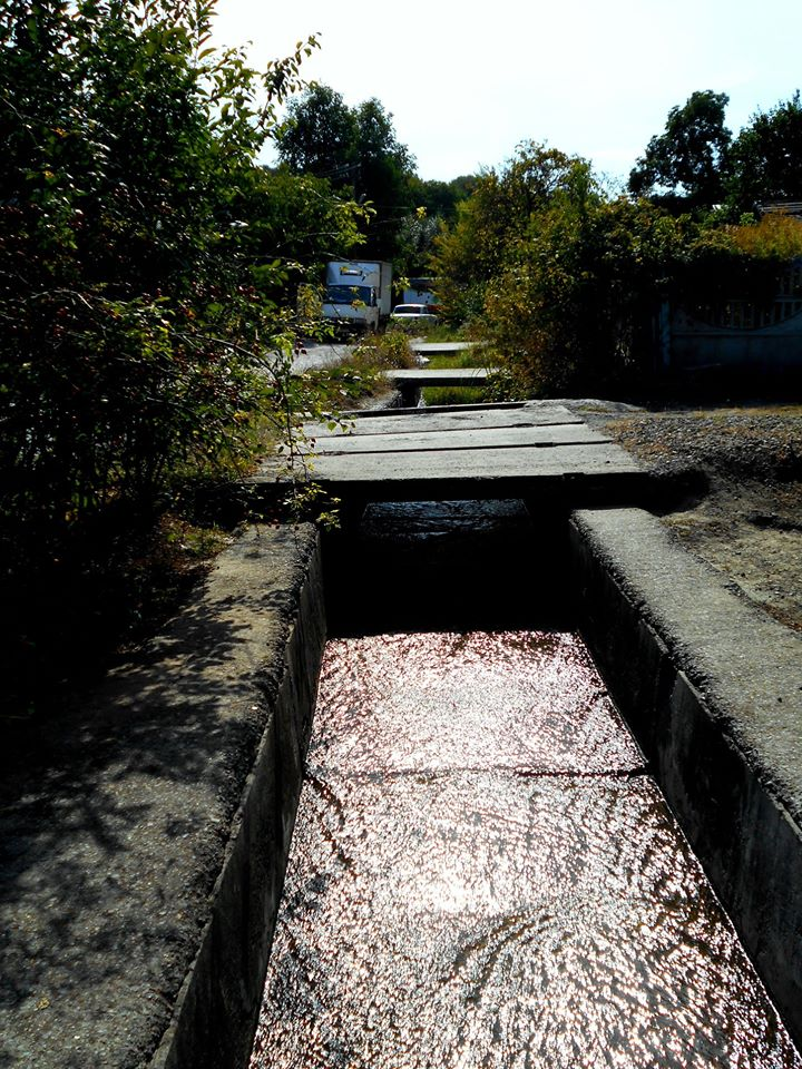 Small river running along the street in Dnipro, Ukraine